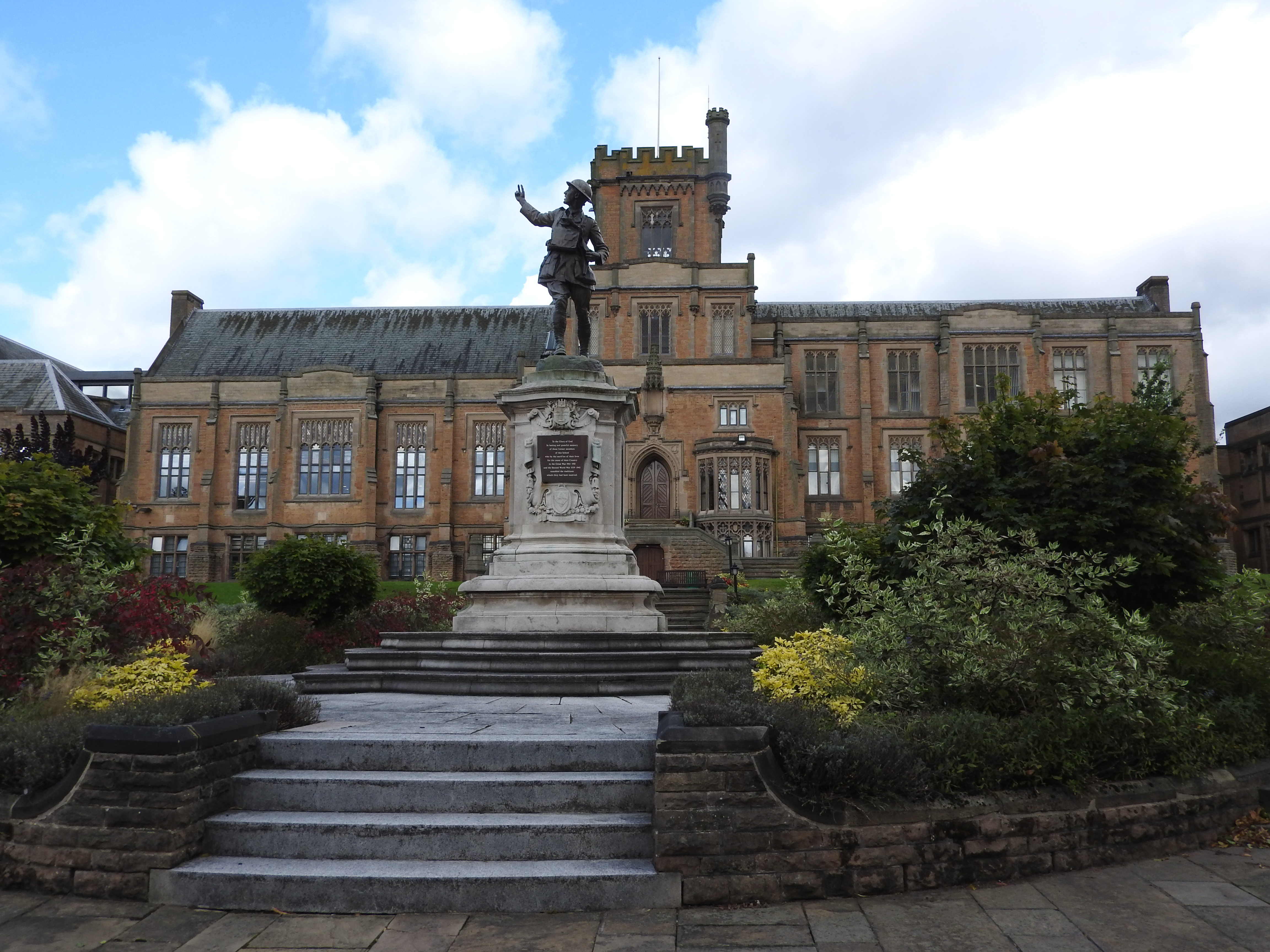 Nottingham High School